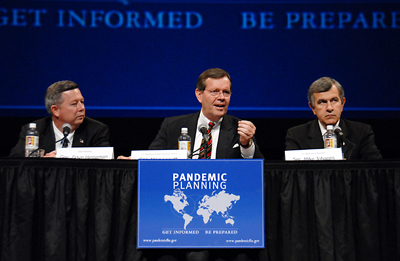 Original caption: "Nebraska Governor Dave Heineman and USDA Secretary Mike Johanns listen as HHS Secretary Mike Leavitt speaks at the Pandemic Flu Response Summit in Lincoln, Nebraska. HHS photo by Chris Smith"